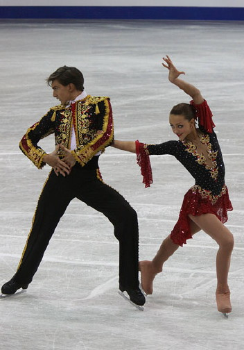 Ekaterina RIAZANOVA and Jonathan GUERREIRO at the 2009 World Junior Figure Skating Championships. CD - Paso Doble